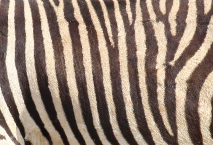 Cropped verison of File:Hartmann's Mountain Zebra 057.jpg by Ltshears.